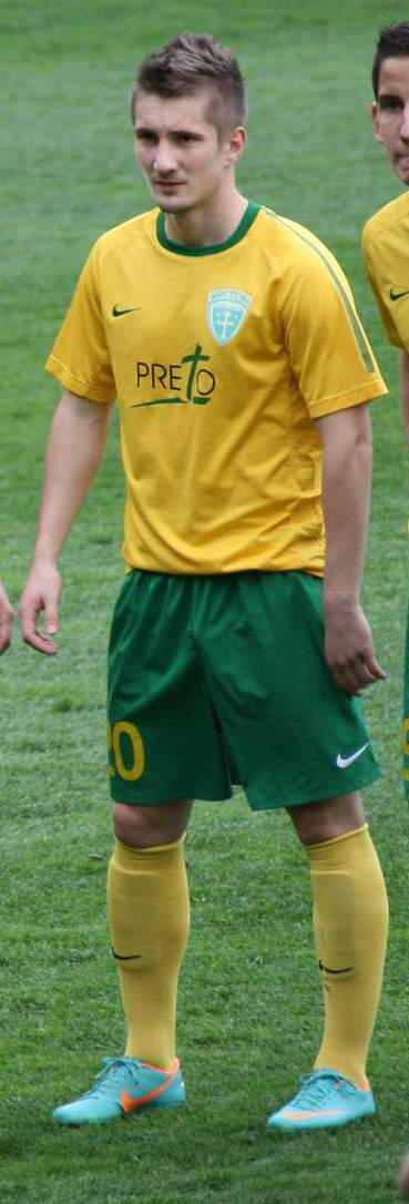 Photo of Slovak footballer Michal Škvarka